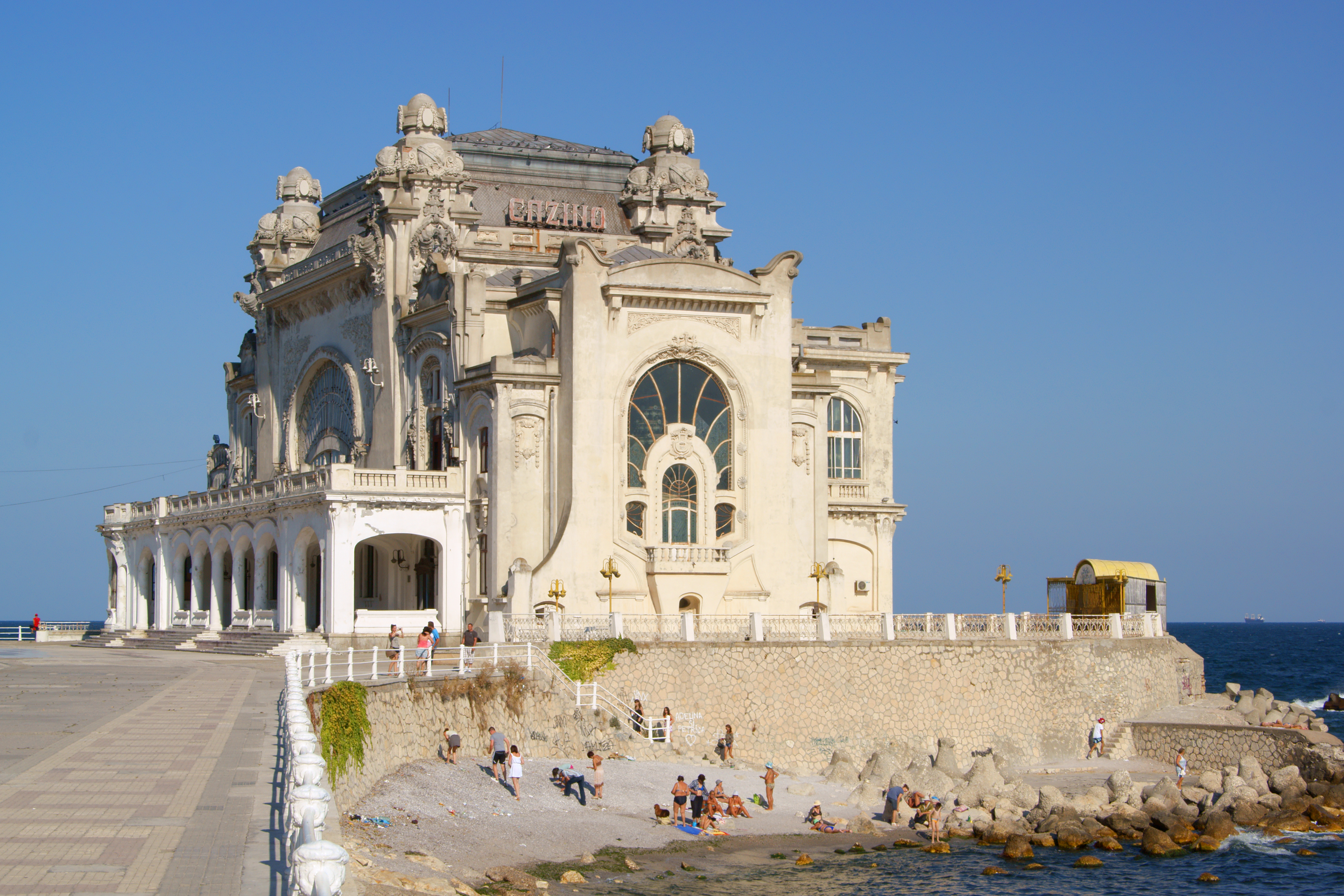 The Casino of Constantza, a cute early twentieth century building showing a peculiar understanding of Art Nouveau.